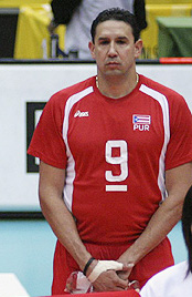 Luís Rodríguez (9) at the FIVB Volleyball Championships at Japan 2006